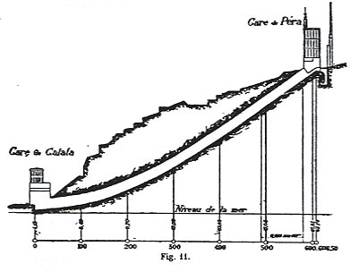 Figure 11 from the booklet Chemin de fer métropolitain de Constantinople by the French engineer Eugène-Henri Gavand, published by Imprimerie de Lahure, Paris, in 1876, showing the profile of the underground Tünel funicular in Istanbul, Turkey.